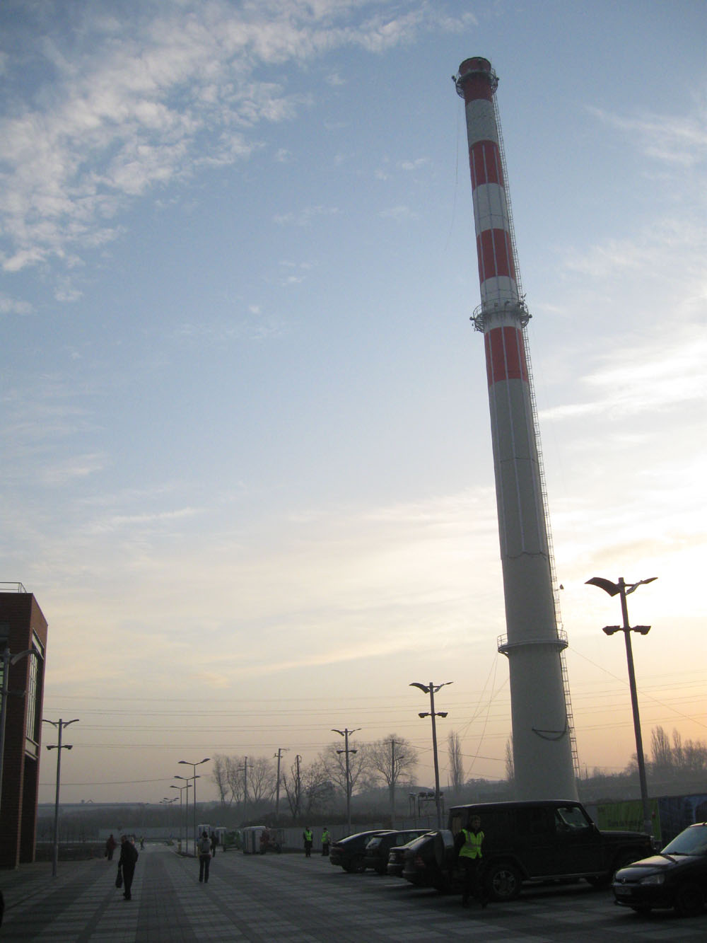 Bonarka City Center shopping mall in Kraków, Poland